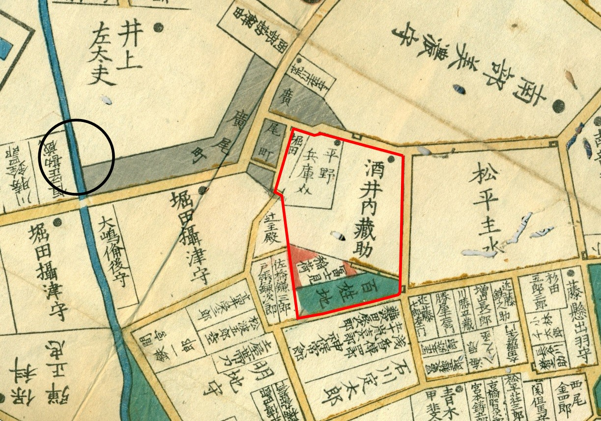 detail from kiri-ezu "Azabu"